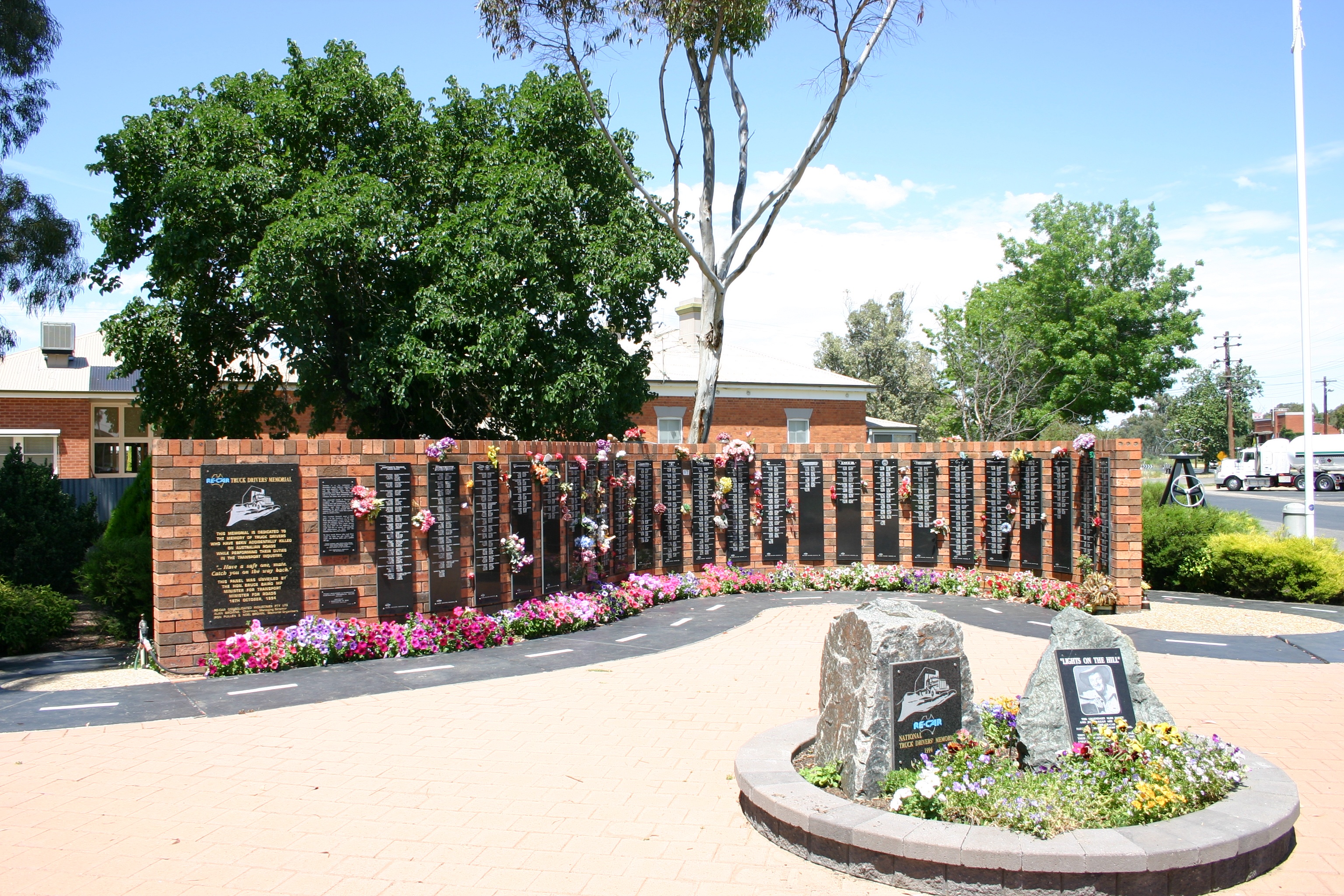 Tarcutta National Memorial to truck drivers killed on Australian roads